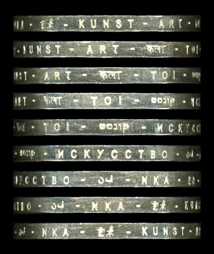 German 10 Euro special coin in occasion to the modern-art-show dokumenta in Kassel; border embossment: the word art in several languages and types.